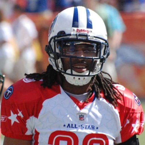 Michael Griffin of the Tennessee Titans